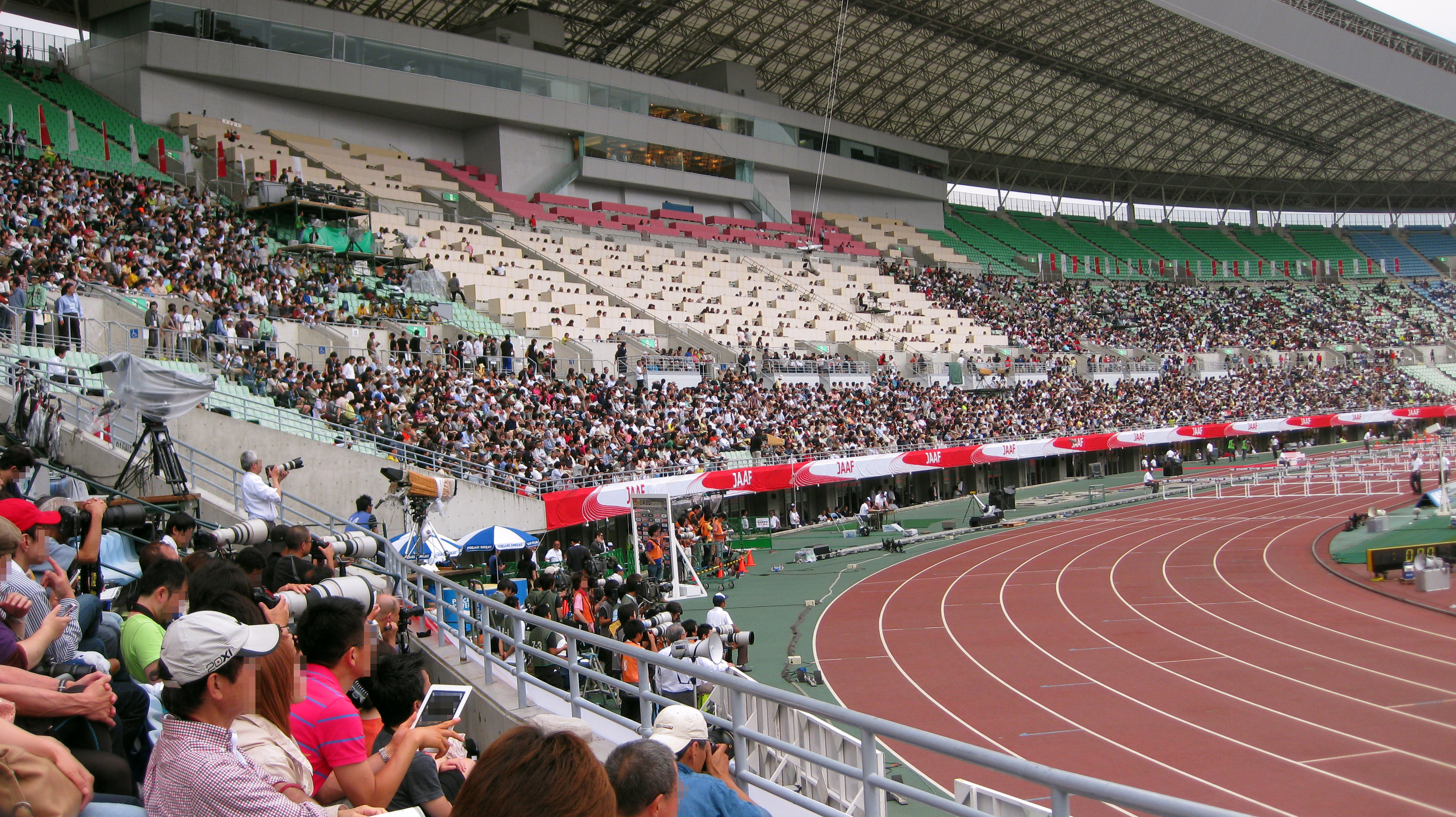 Crowds on stands waiting for start of the women's 100 metres hurdles semi-final at the 96th Japan Championships in Athletics - This photo was taken on 9 June, 2012 at Nagai Stadium, Osaka.